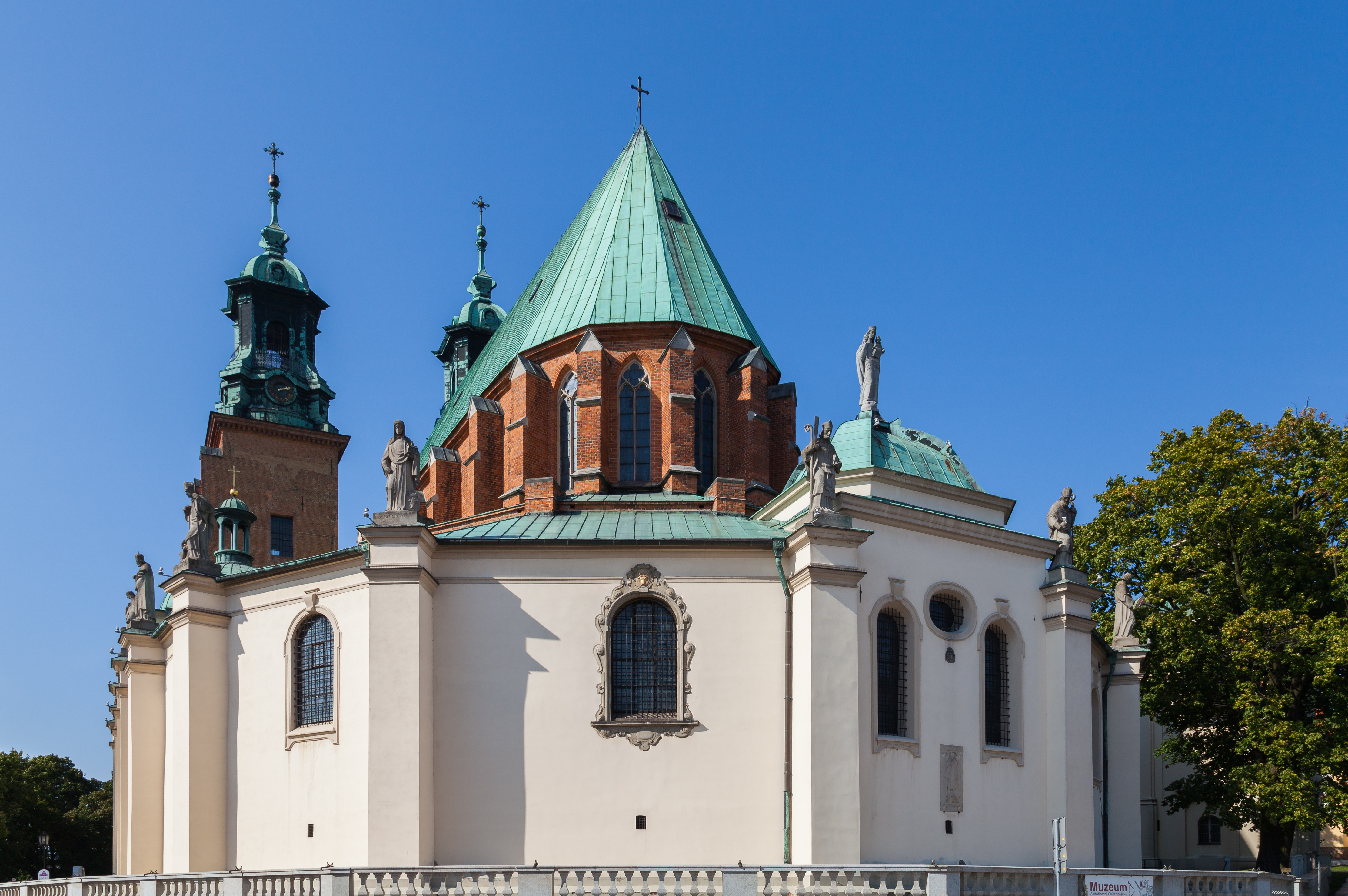 Gniezno Cathedral, Gniezno, Poland